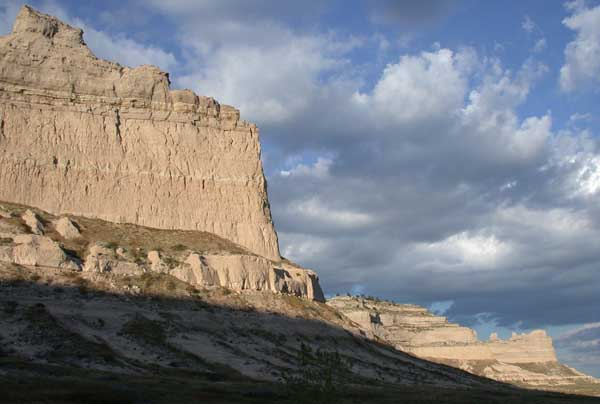 Scotts Bluff National Monument near Gering, Nebraska. View from the summit of Mitchell Pass northeastward towards Saddle Rock (taken Oct. 4, 2004)